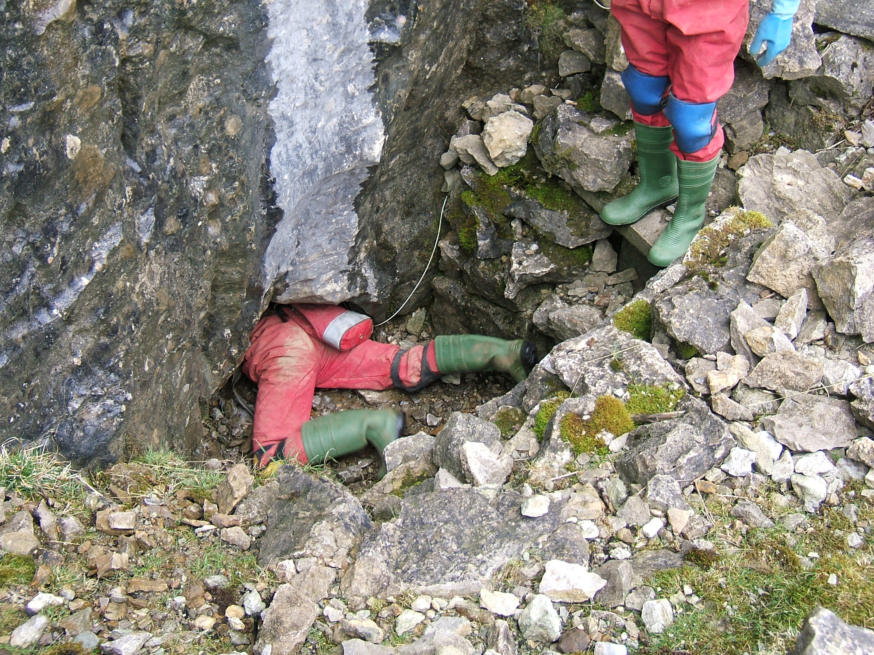 Caver entering Ogof y Daren Cilau